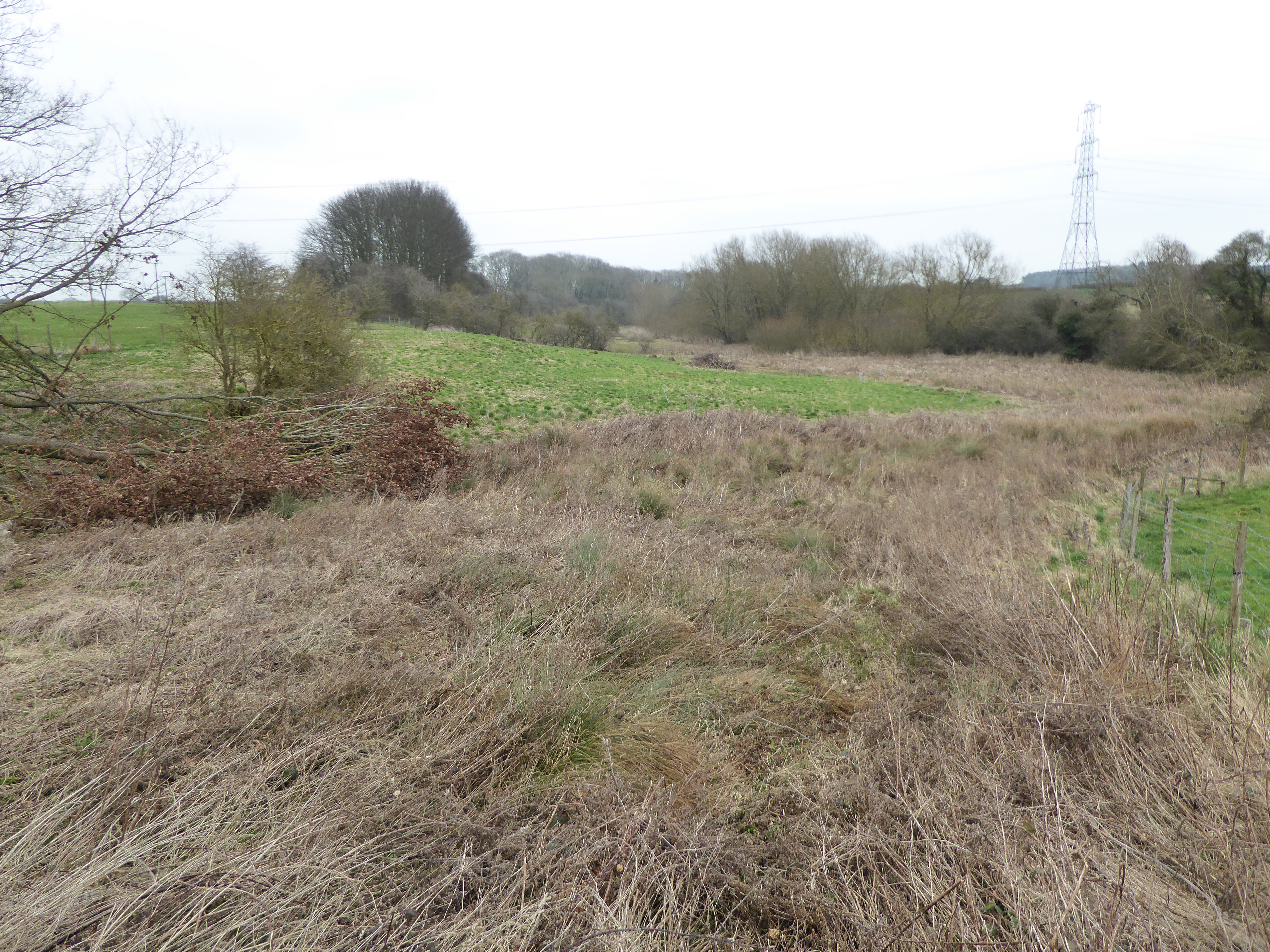 Mawsley Marsh is part of the Birch Spinney and Mawsley Marsh biological Site of Special Scientific Interest, west of Great Cransley in Northamptonshire.